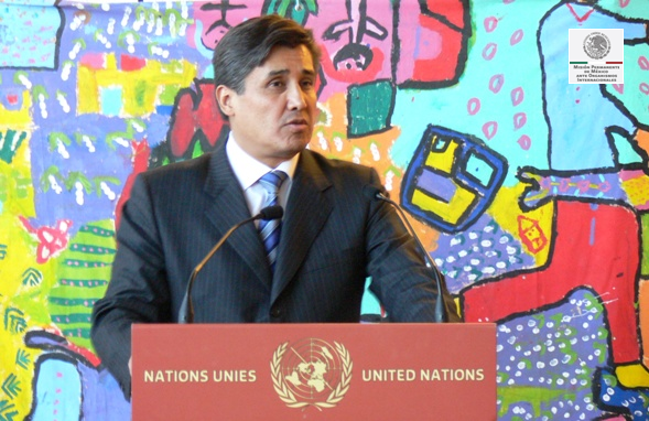 Ambassador Juan José Gómez Camacho at the UN Geneva